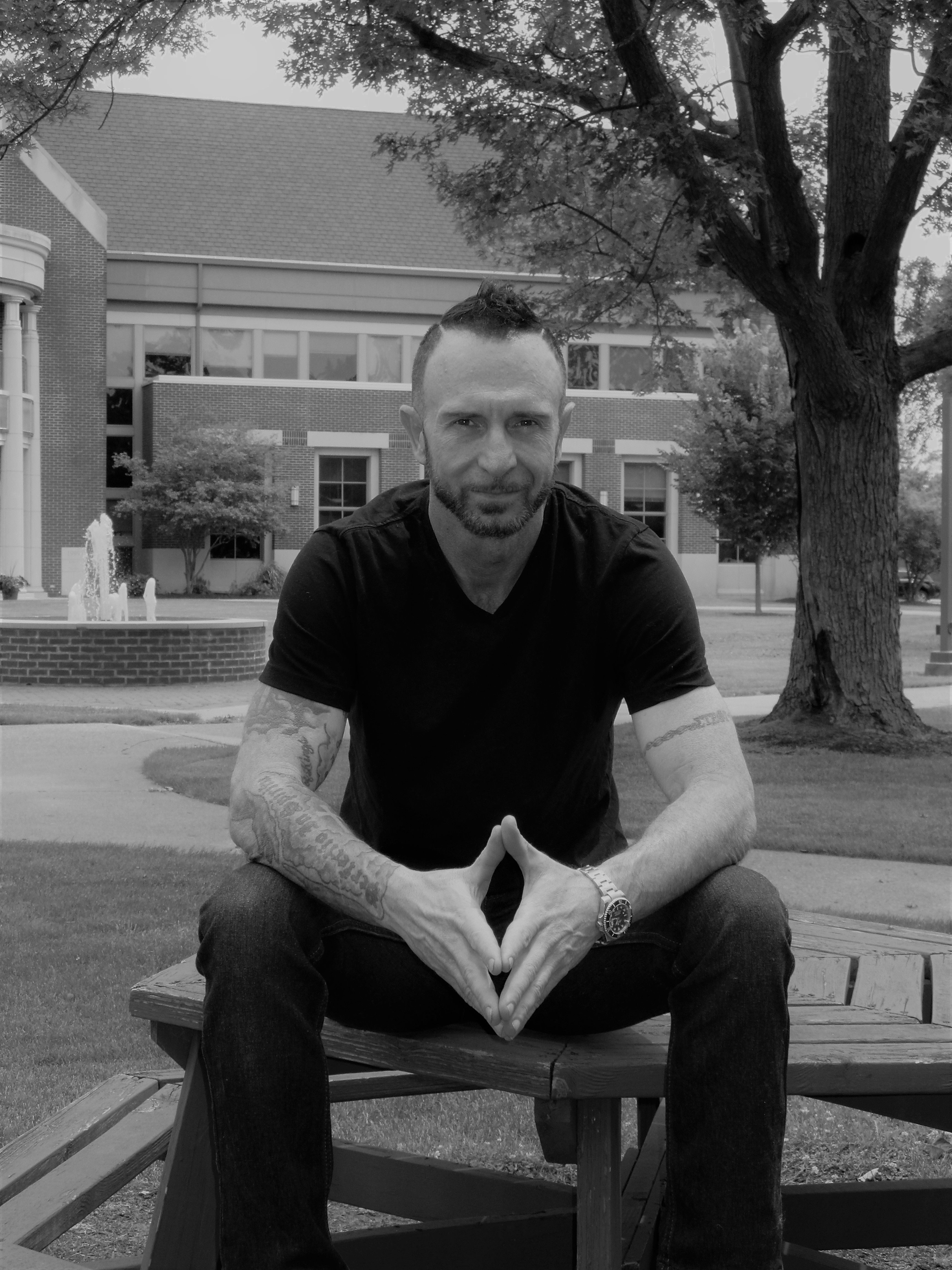 Steven Meese is a Greek-American chef and TV personality. He is best known as the creator, host and producer of the PBS series, “A Chef's Journey.” He currently is writing a cookbook entitled, "My Mediterranean Kitchen."